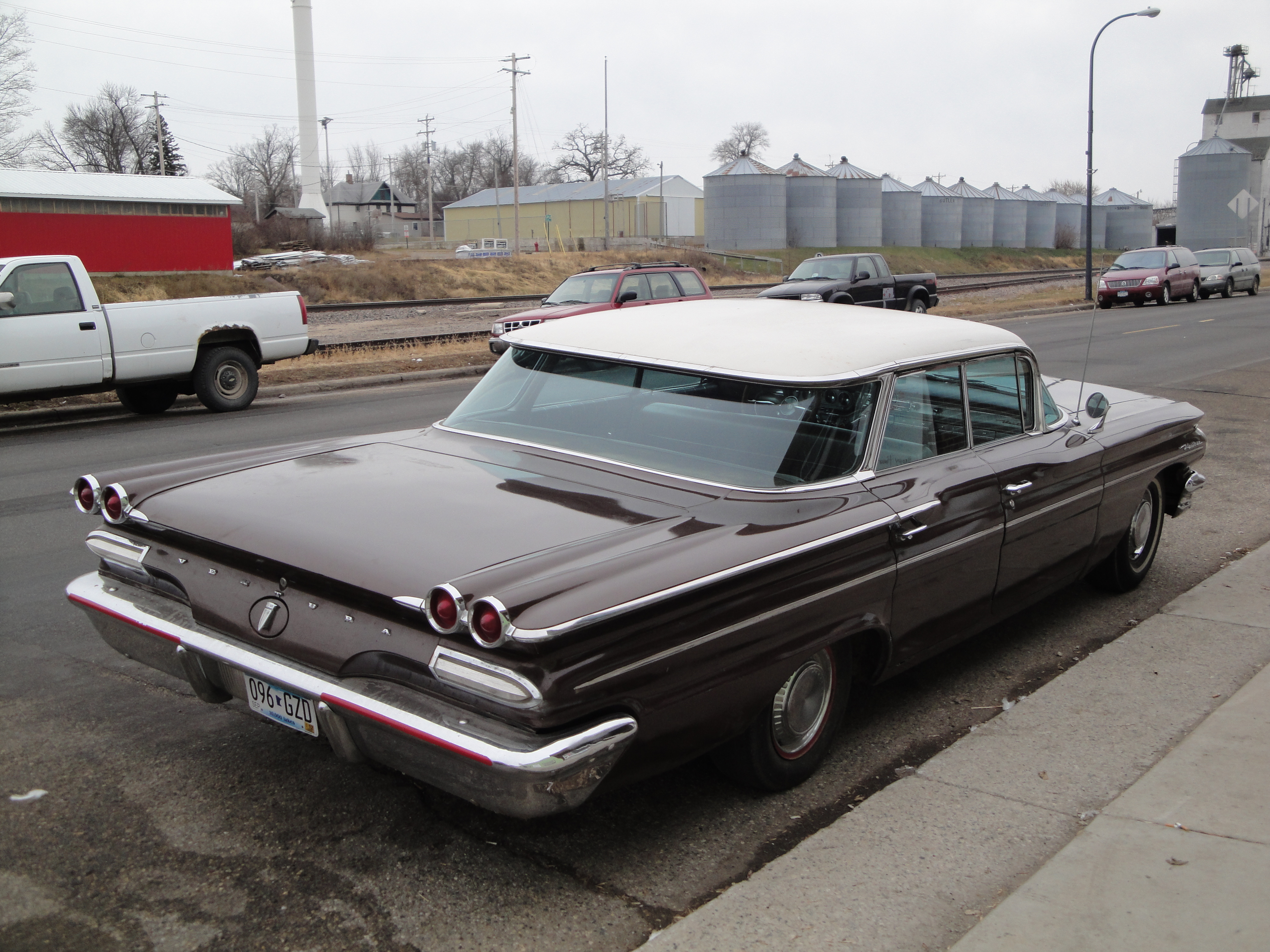 I was traveling to the Twin Cities for the Magnum's free oil change and 30K check up. I was surprised that not all the interesting old cars were tucked away.